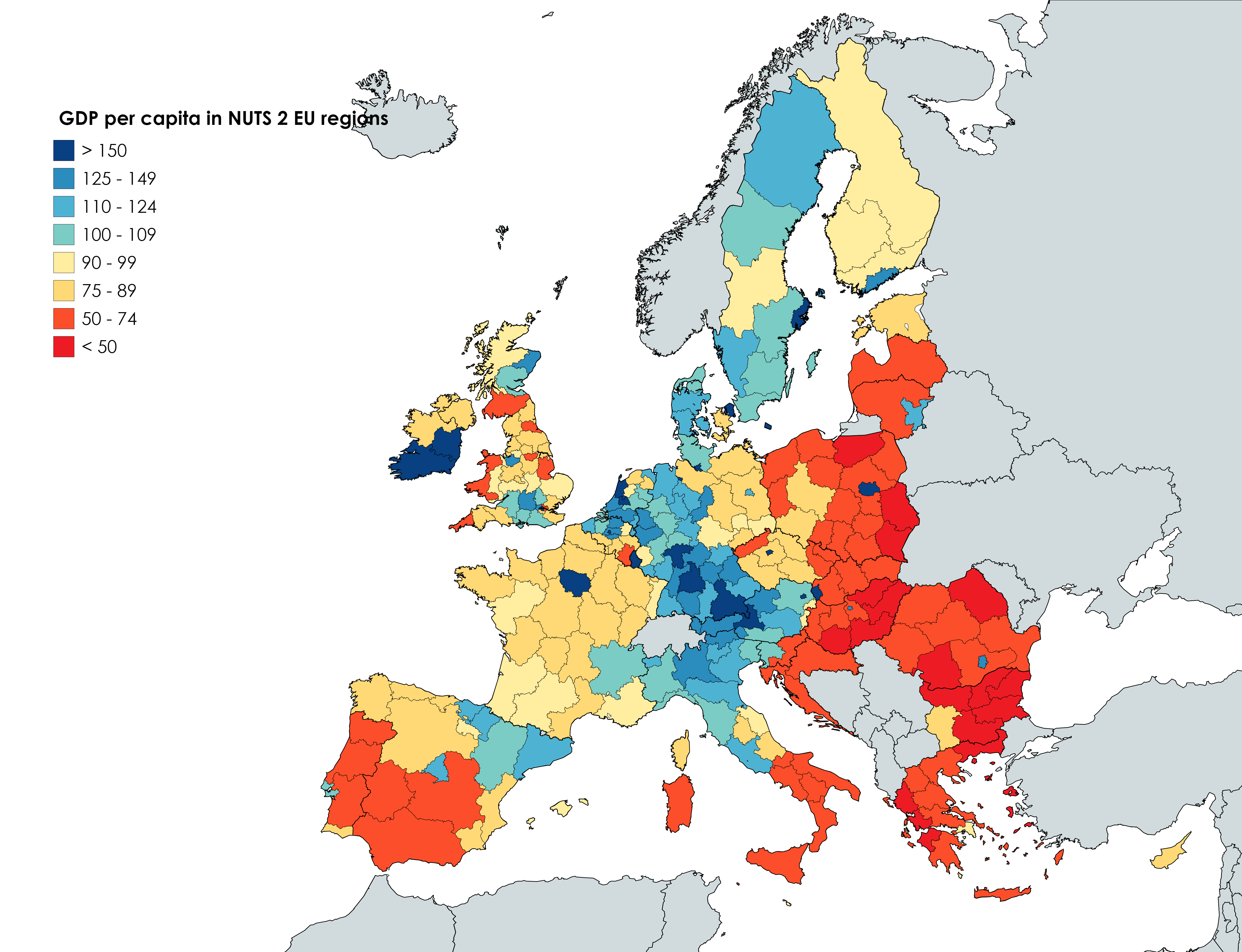 GDP per capita in NUTS 2 EU regions in 2017. In blue the richest regions, in red the poorest ones. Data from